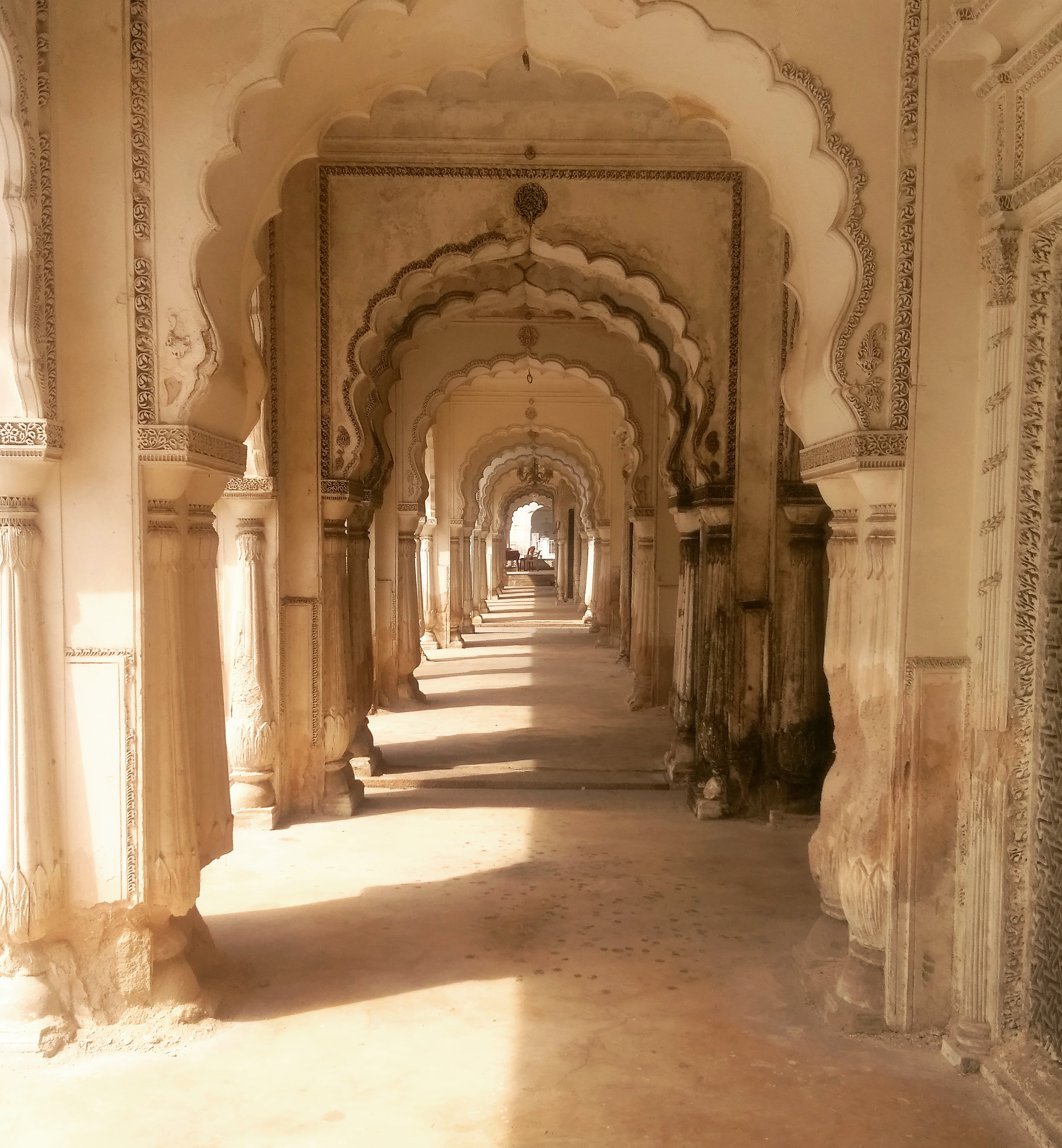 Paigah tombs arch: The paigah tombs are located at Pisabandla on the road to santhosh nagar colony from the Mirjumla Tank.It represent the final resting places of several generations of the paigah nobles, including Asman Jah,Viqar-ul-Umara and shams Ul Umara.Constructed between 1787 and 1880s, the tombs eith unique designs,are magnificent structures with stucco work,reflecting Deccani,Mughal,Greek,Persian,Asaf Jahi and Rajasthani styles of architecture. Paigah Tombs Qalender Nagar Rd, Santosh Nagar, Kanchan Bagh, Owaisi Nagar, Hasnabad, Santosh Nagar, Hyderabad, Telangana 500059 1800 4254 6464